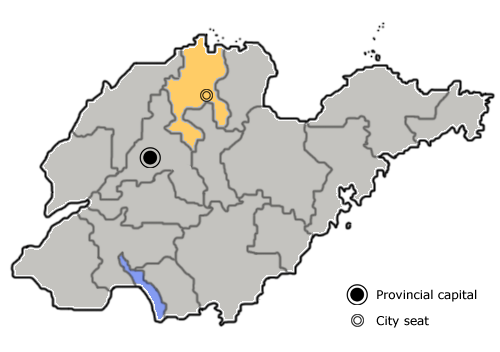 The prefecture-level city of Binzhou is highlighted on this map of Shandong province, People's Republic of China.